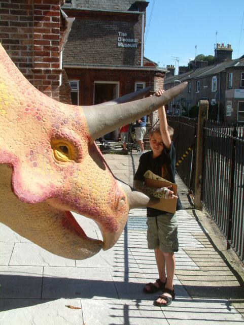 Triceratops model outside the Dinosaur Museum in Dorchester, Dorset, England.